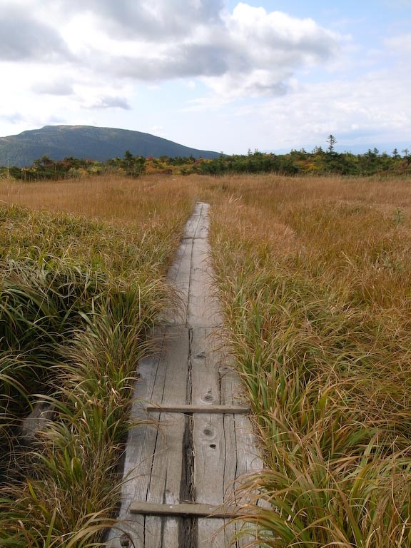 Hakkōda-san in October.